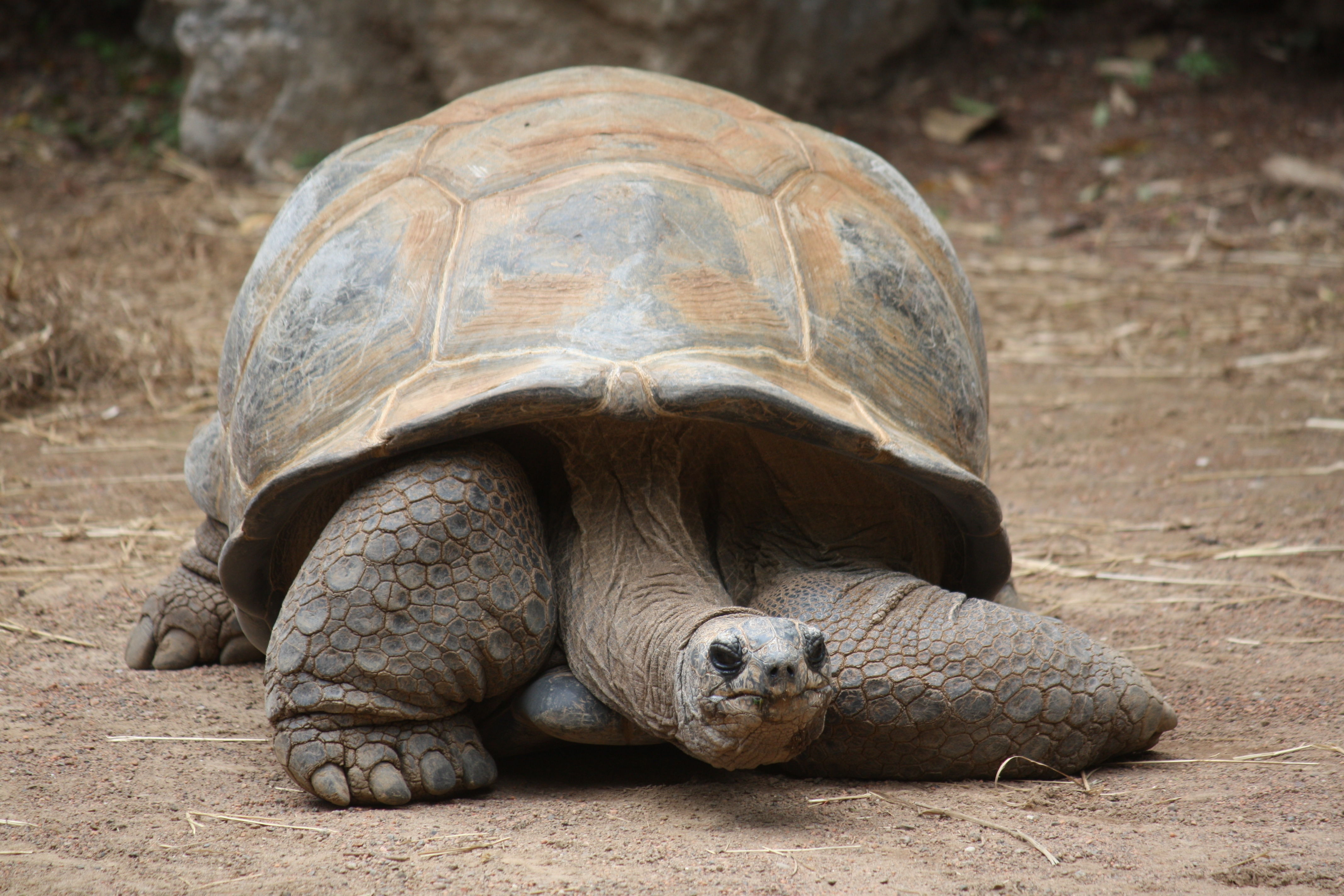 Aldabra Tortoise Geochelone gigantea at Louisville Zoo